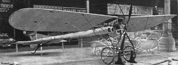 1910 Humber monoplane (Le Blon Type) - designed by Hubert Le Blon. Exhibited at the 1910 Olympia Air Show. The narrow body was designed to be ridden on, like a horse-back or a fairy on a Dragonfly, thus saving weight.